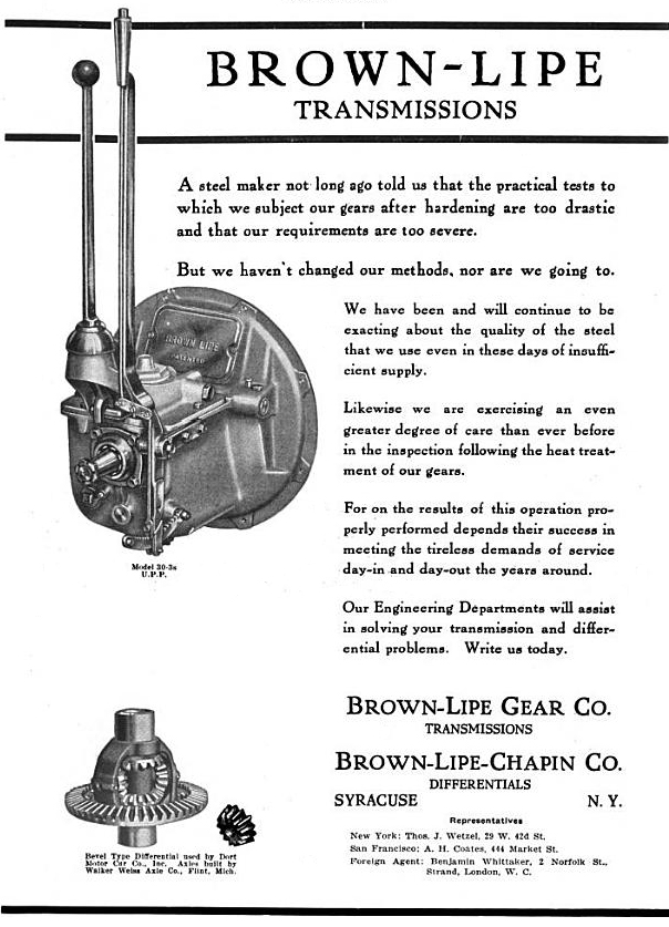 Brown-Lipe - Automotive Industries - October, 1917